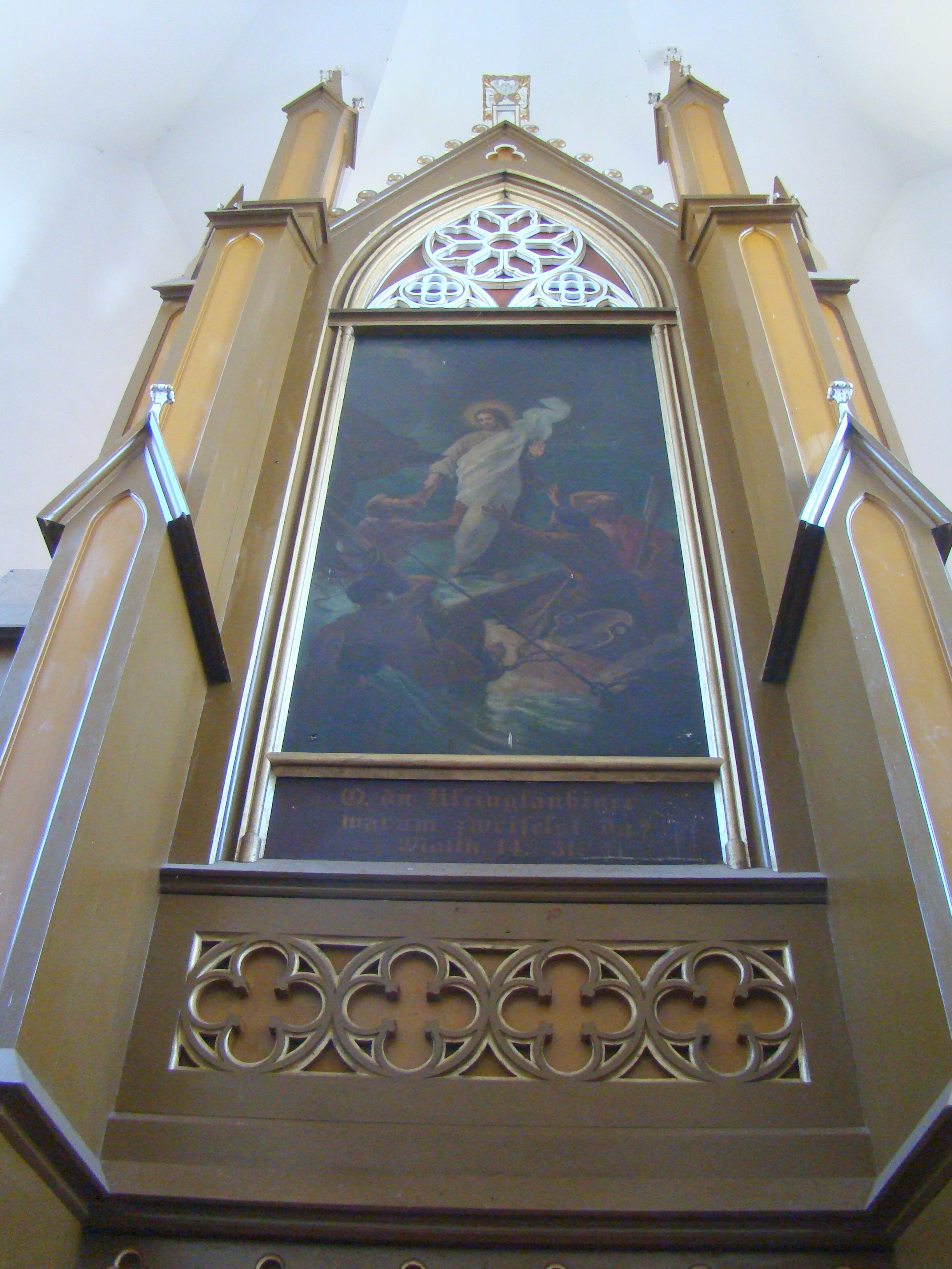 Lutheran church in Dedrad, Mureş county, Romania